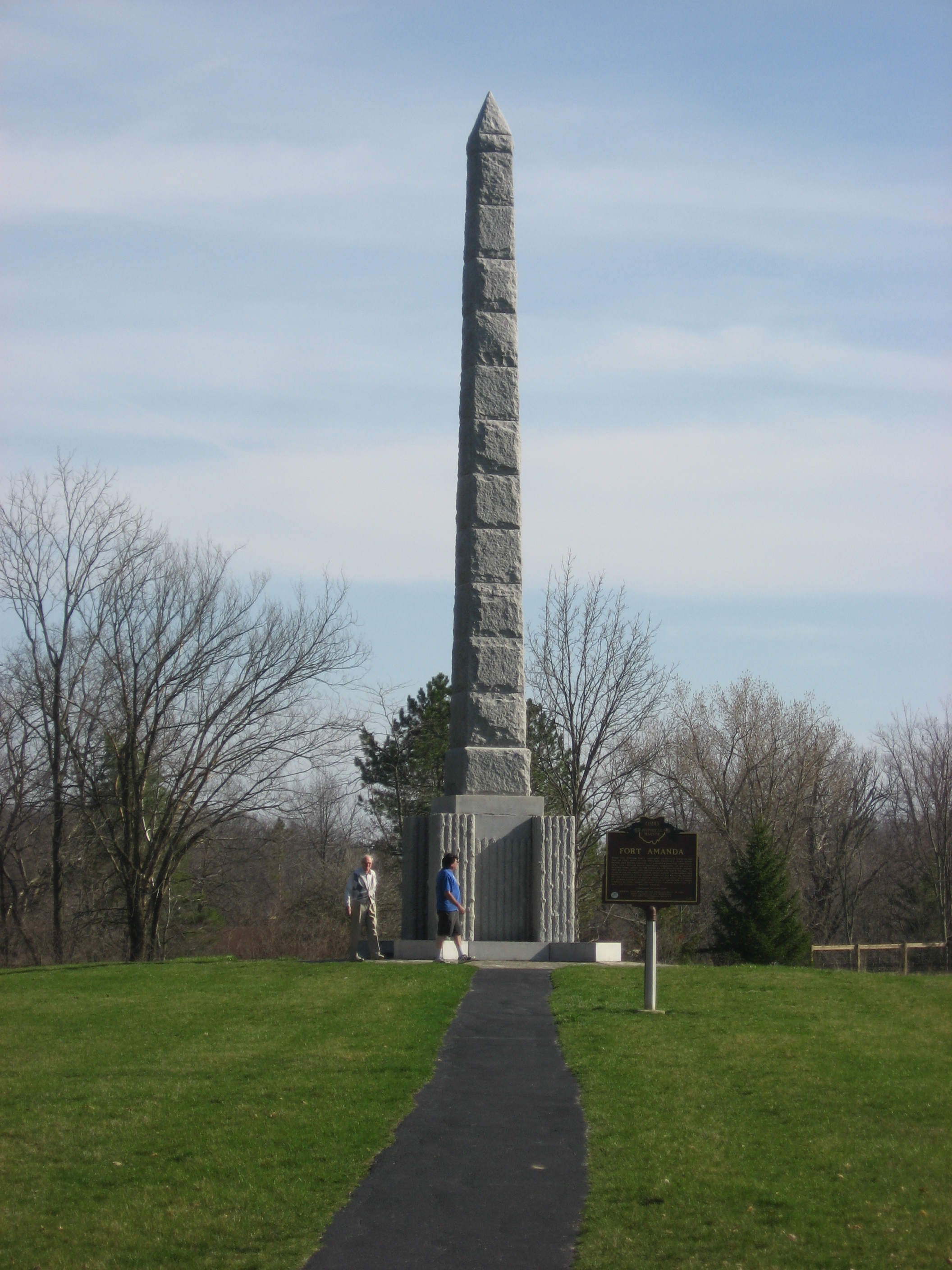 Memorial obelisk at the Fort Amanda Site in Logan Township, Auglaize County, Ohio, United States.